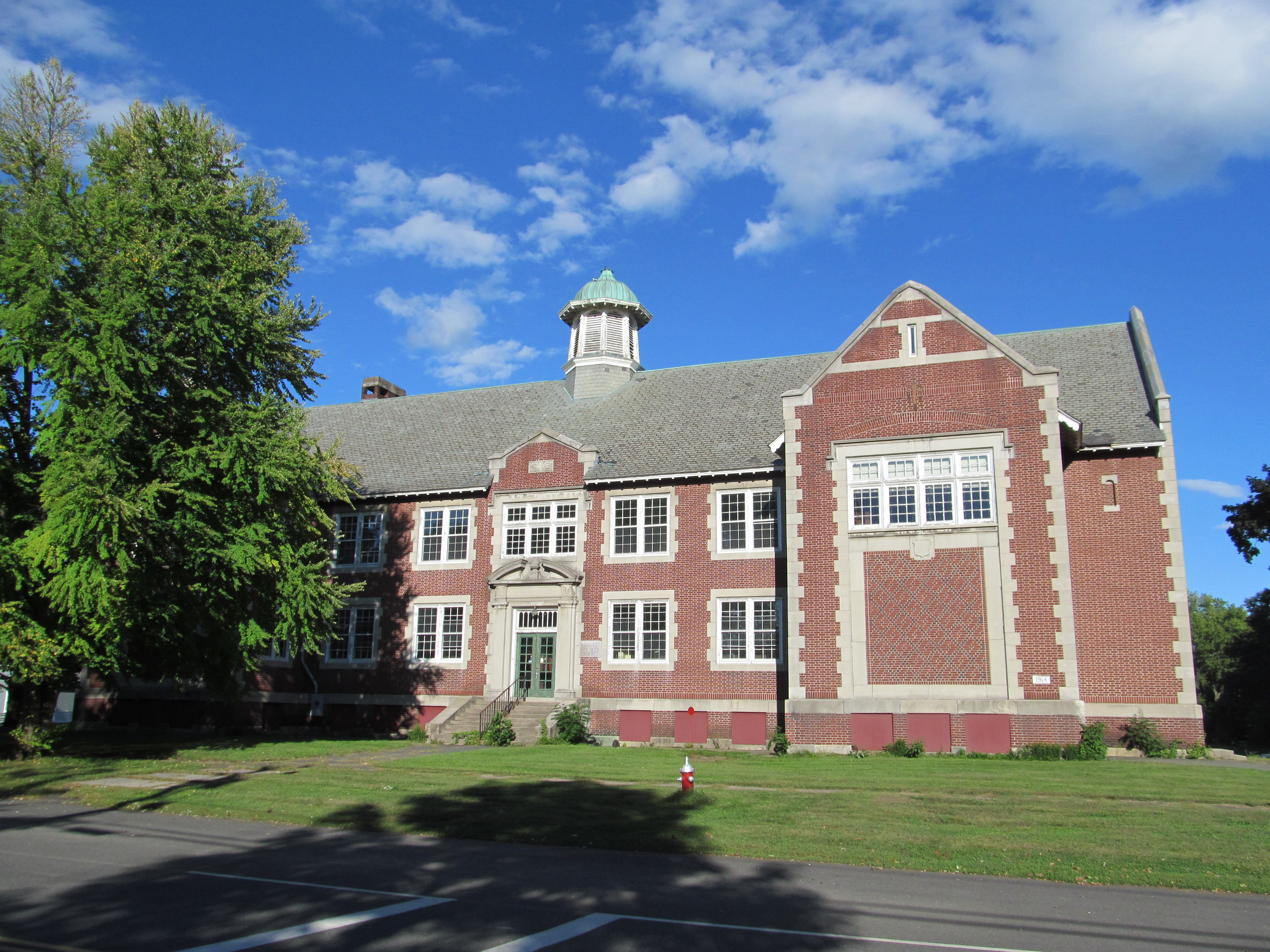 Hatfield Center Historic District, Hatfield Massachusetts